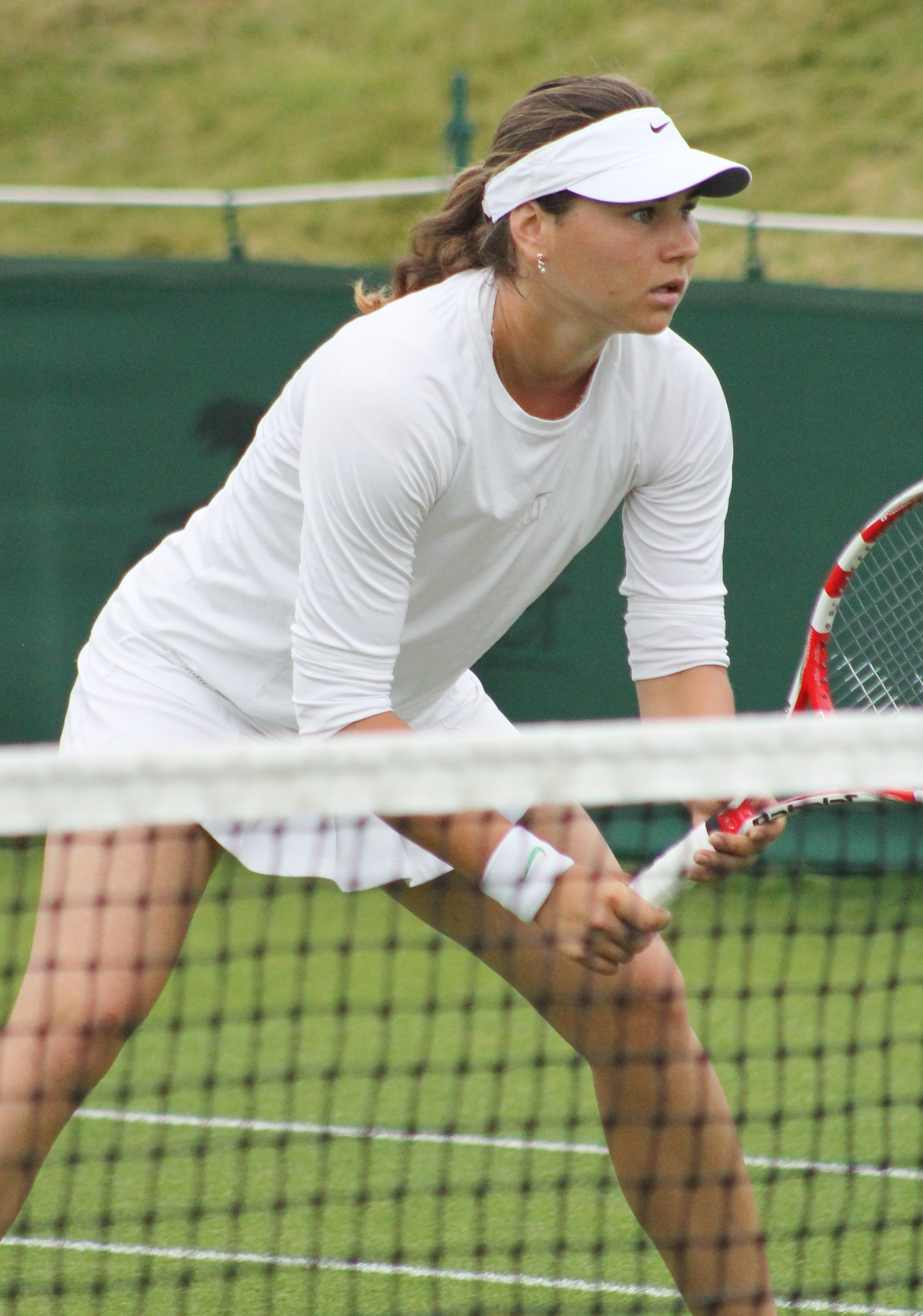 Valeria Solovyeva, 2013 Wimbledon Qualifying Tournament